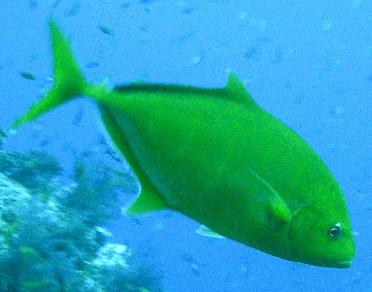 "Trevally", presumably a Carangidae